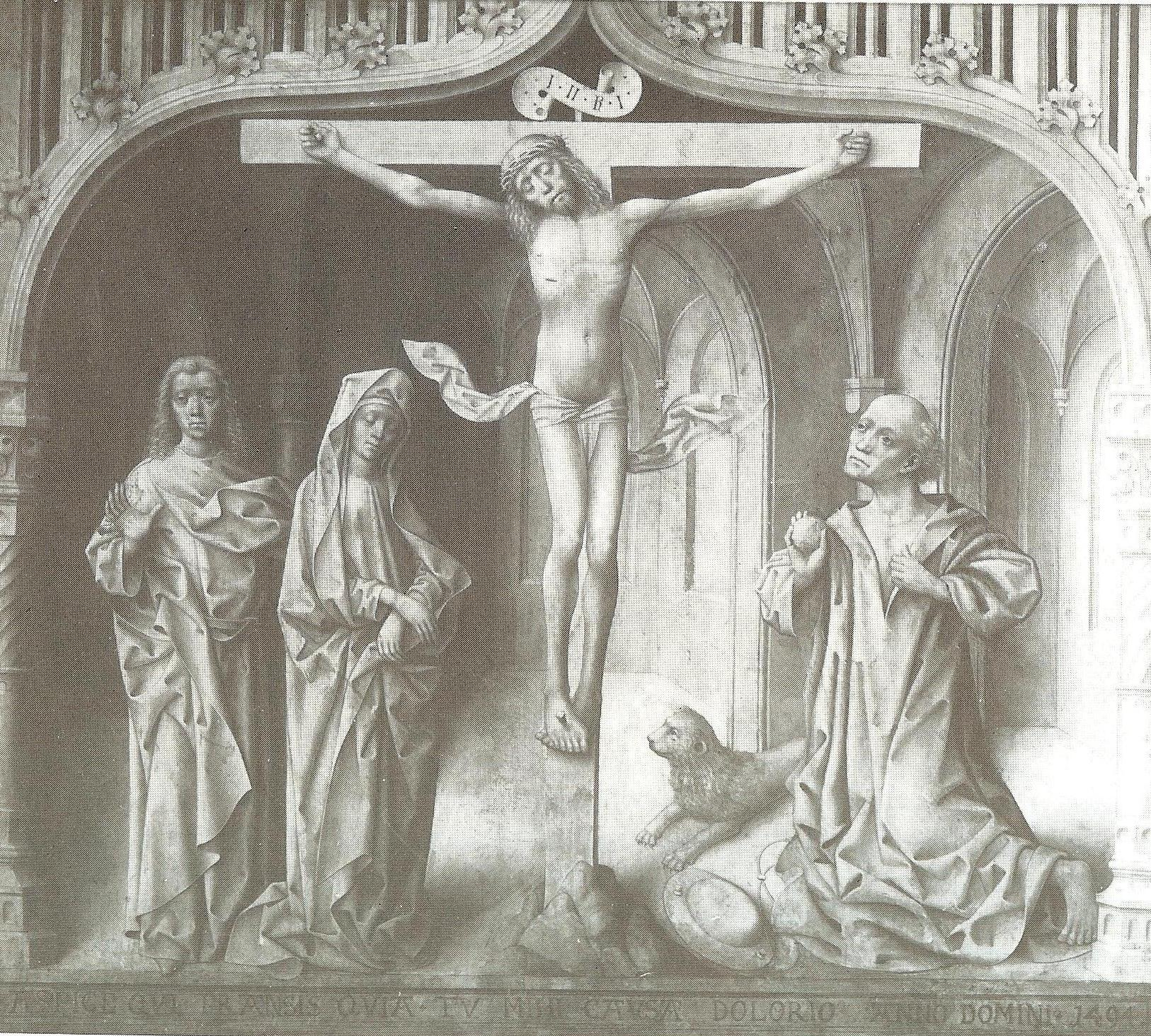 Outer view of Holy Cross Altar by Hermen Rode for the Grevaraden Chapel in the Marienkirche, Lübeck, showing the crucifixion with Saints Mary and John and St. Jerome (destroyed 1942), the inscription reads: ASPICE QUI TRANSIS QUIA TU MIHI CAUSA DOLORIS (Look you who pass by, for you [are] the cause of my pain)